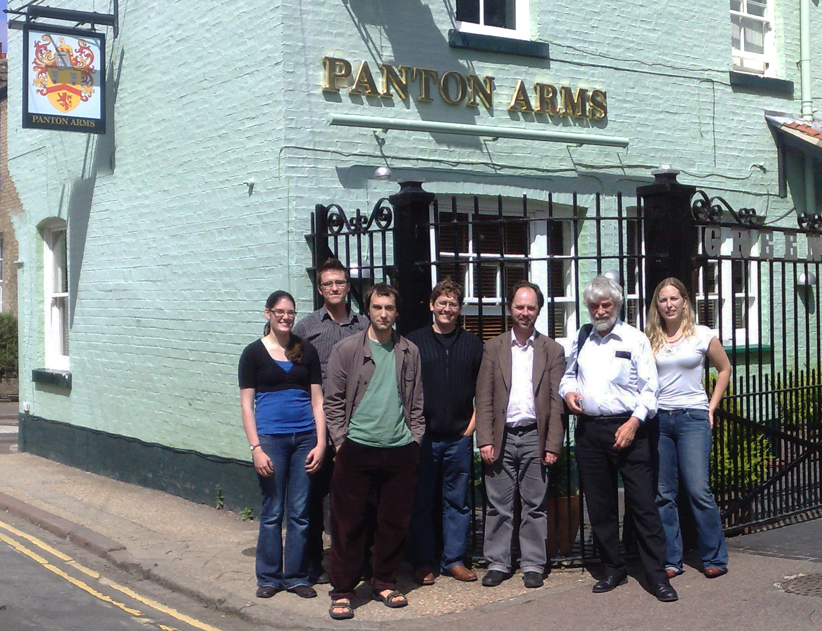 The group who drafted the Panton Principles at the Panton Arms, September 2009/ Jenny Molloy, Jordan Hatcher, Rufus Pollock, John Wilbanks, Cameron Neylon, Peter Murray-Rust, Carolina Rossini